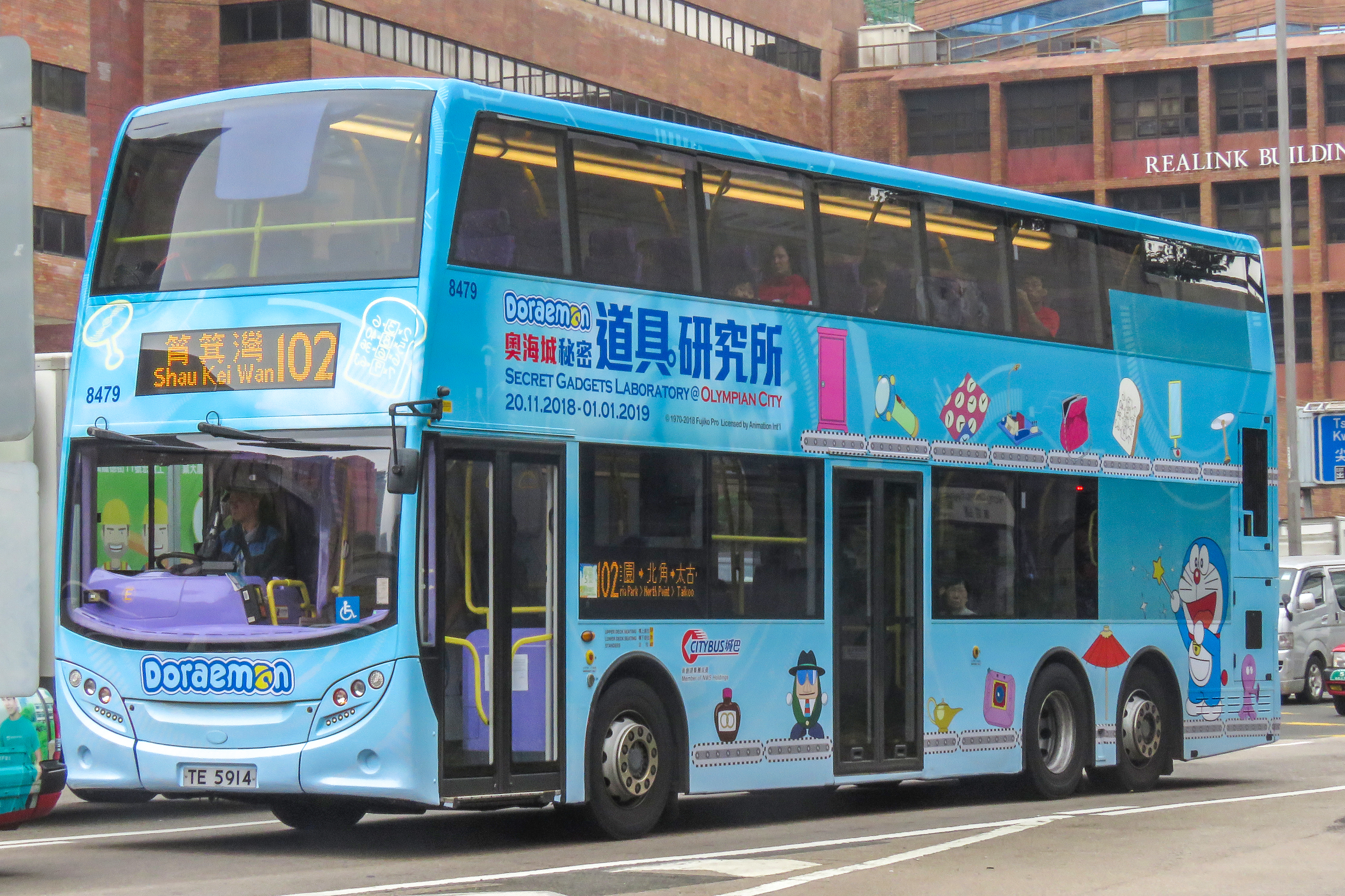 Here comes the "Doraemon Bus", promoting the Doraemon Secret Gadgets Laboratory at Olympian City, Tai Kok Tsui.